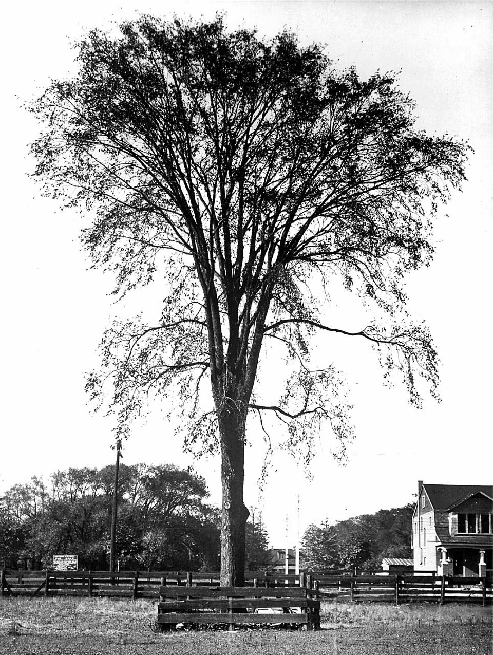 Lovers' Elm, Gwynne estate, Dufferin Street, Toronto, Canada. Under this tree, Miss [Nell] Gwynne bade farewell to her lover sweetheart soldier, who was shot in the war.